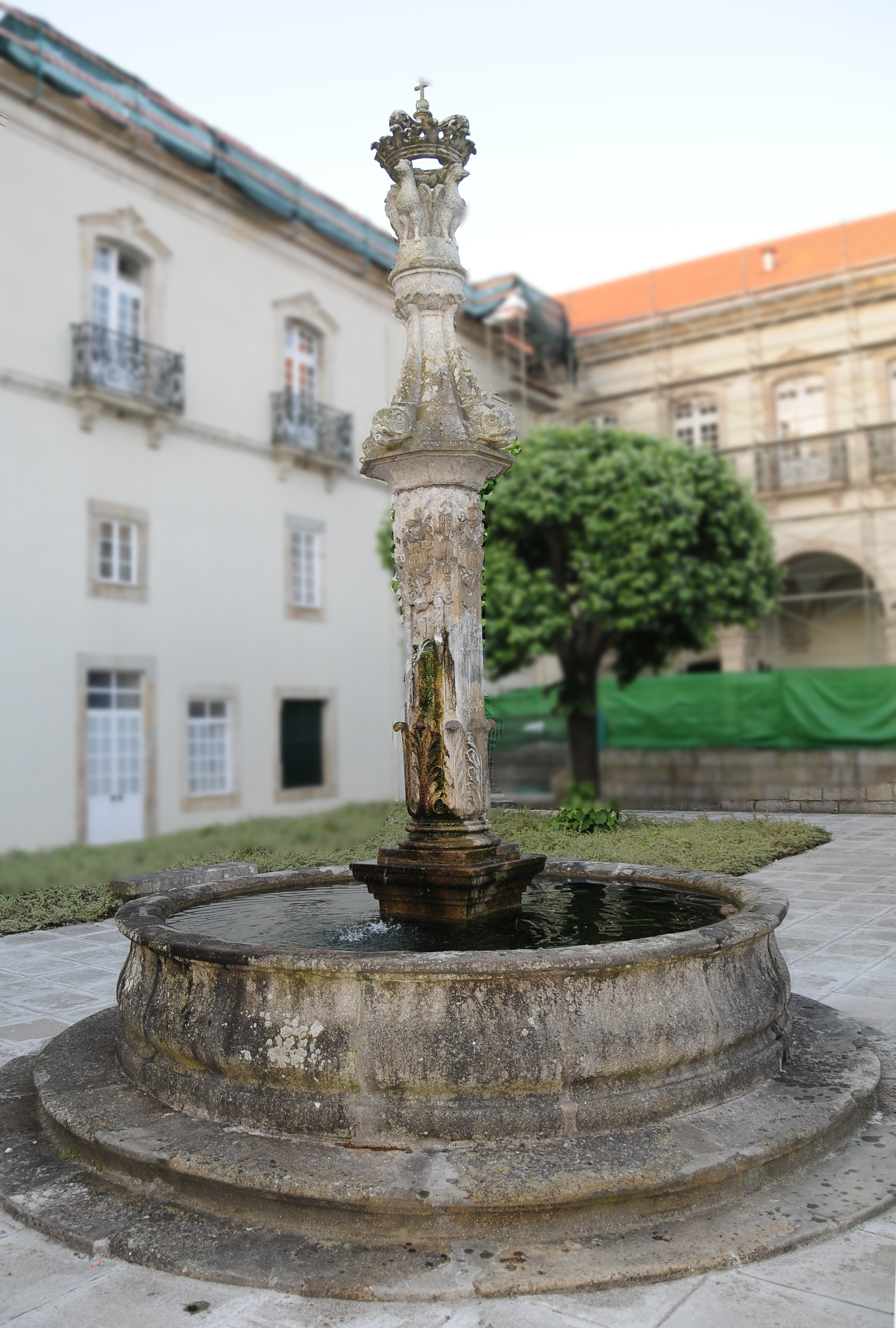 Fountain in Vilar de Frades, Barcelos, Portugal.